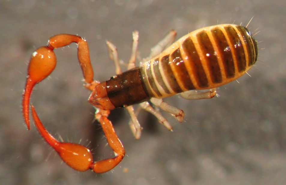 Pseudoscorpion, a typical organism that live in the wood litter